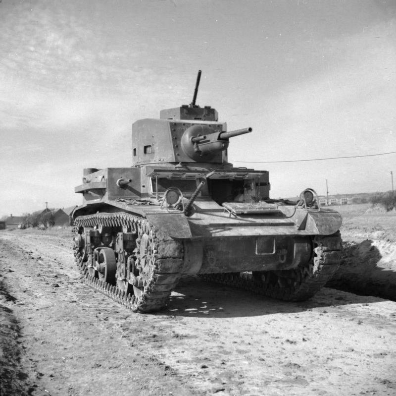 The British Army in the United Kingdom 1939-45 M2A4 Light Tank, 11 March 1942.